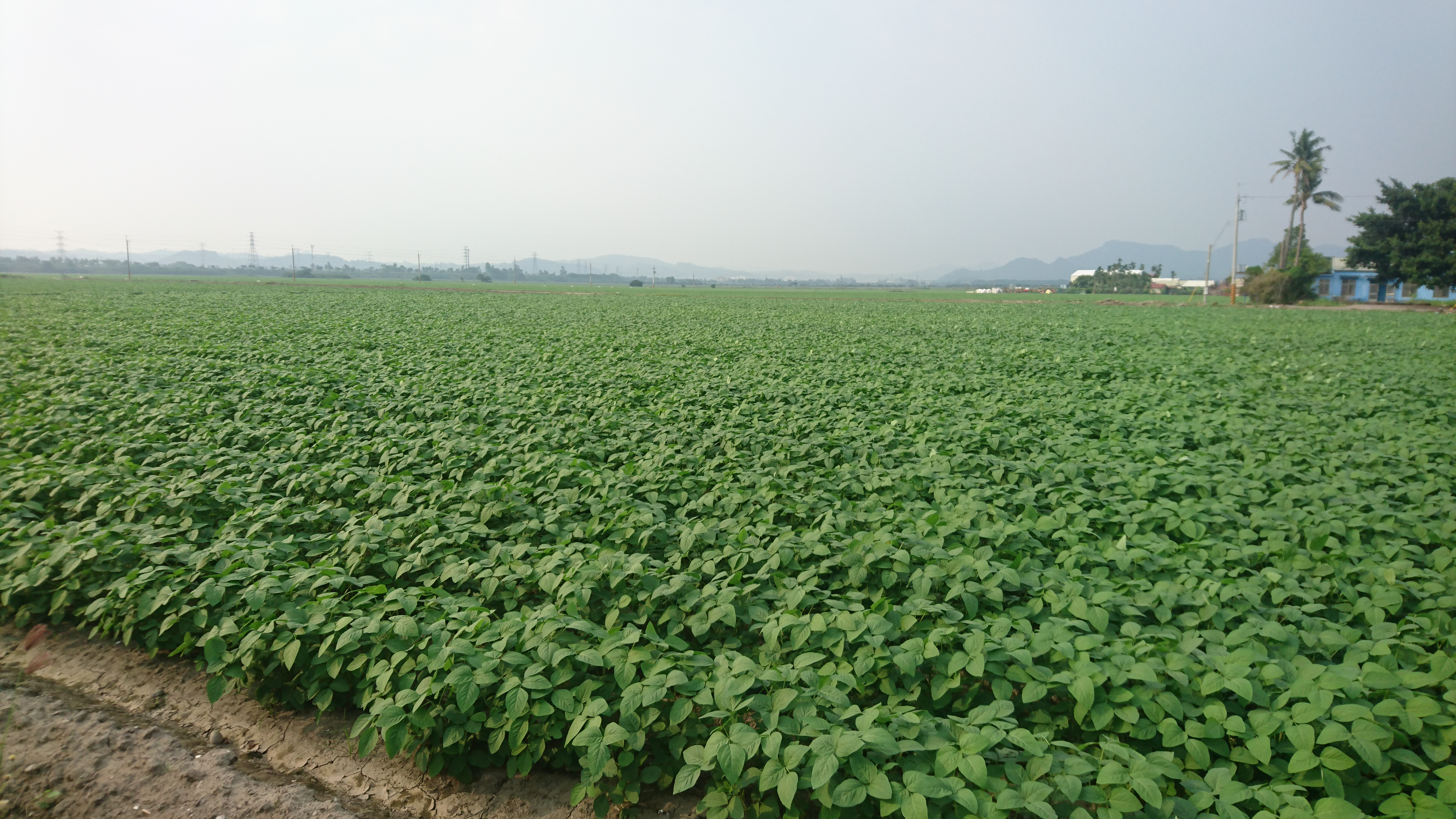 Crops growing in a field in Cishan.